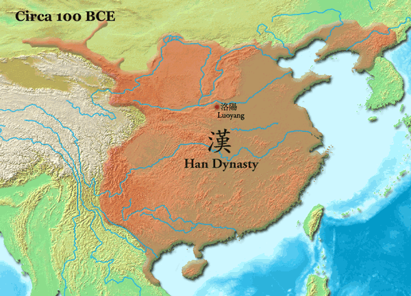 Han Dynasty 100 BCE (Chinese)